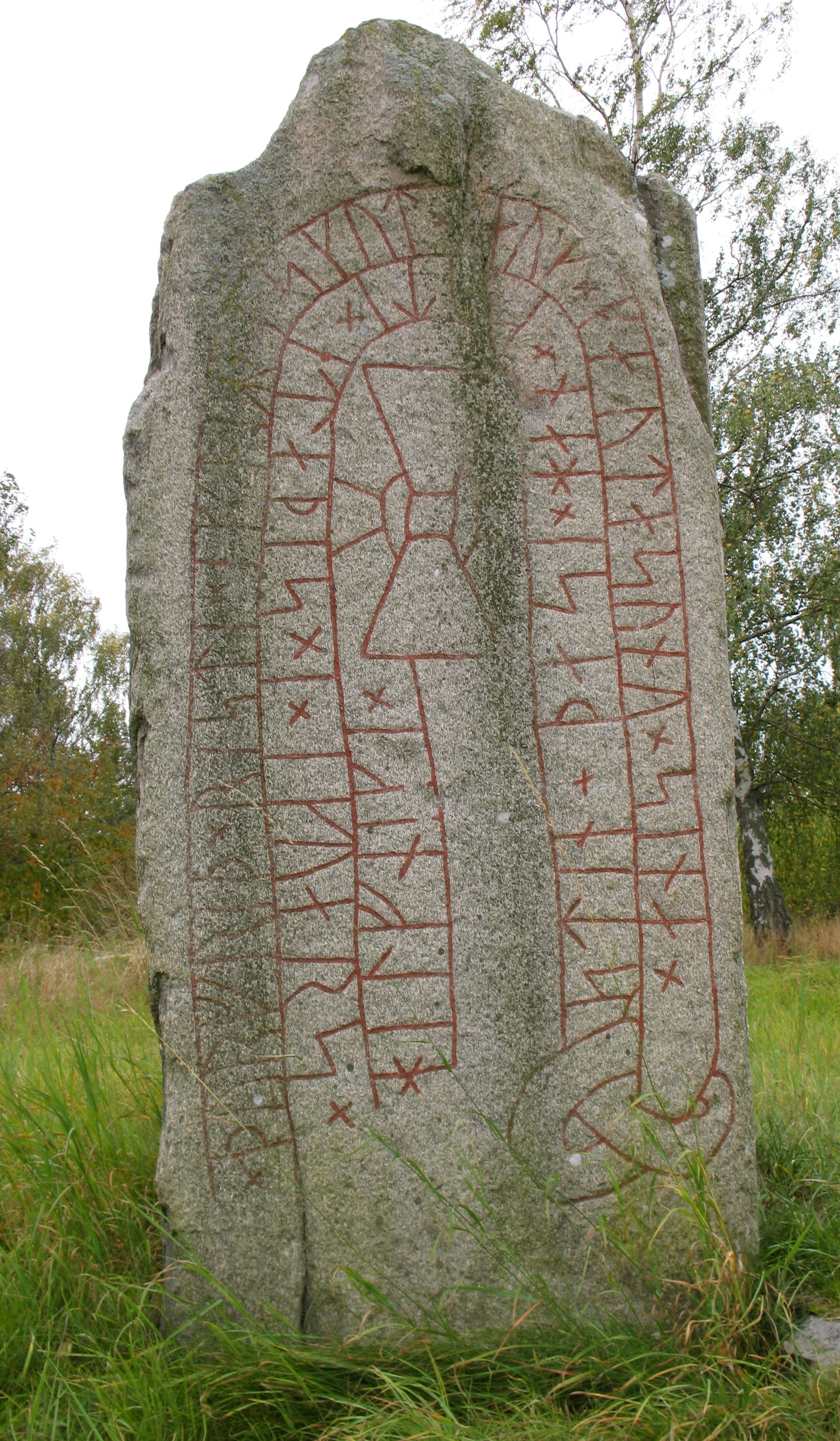 Runestone Ög 155 in Sylten, Styrstad parish, Norrköping municipality, Östergötland.